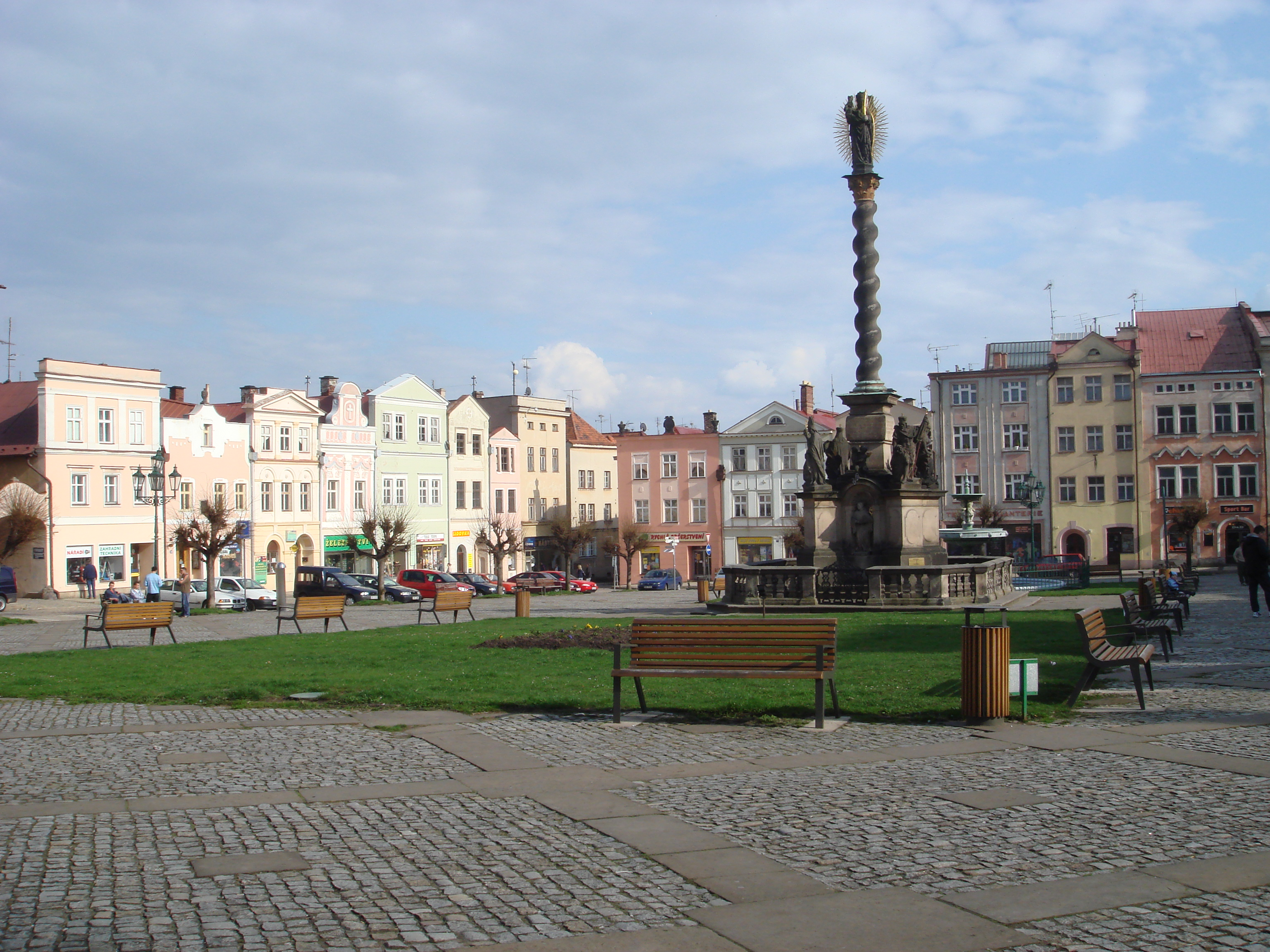 Mírové náměstí square in Broumov (Hradec Králové Region, Czech Republic).